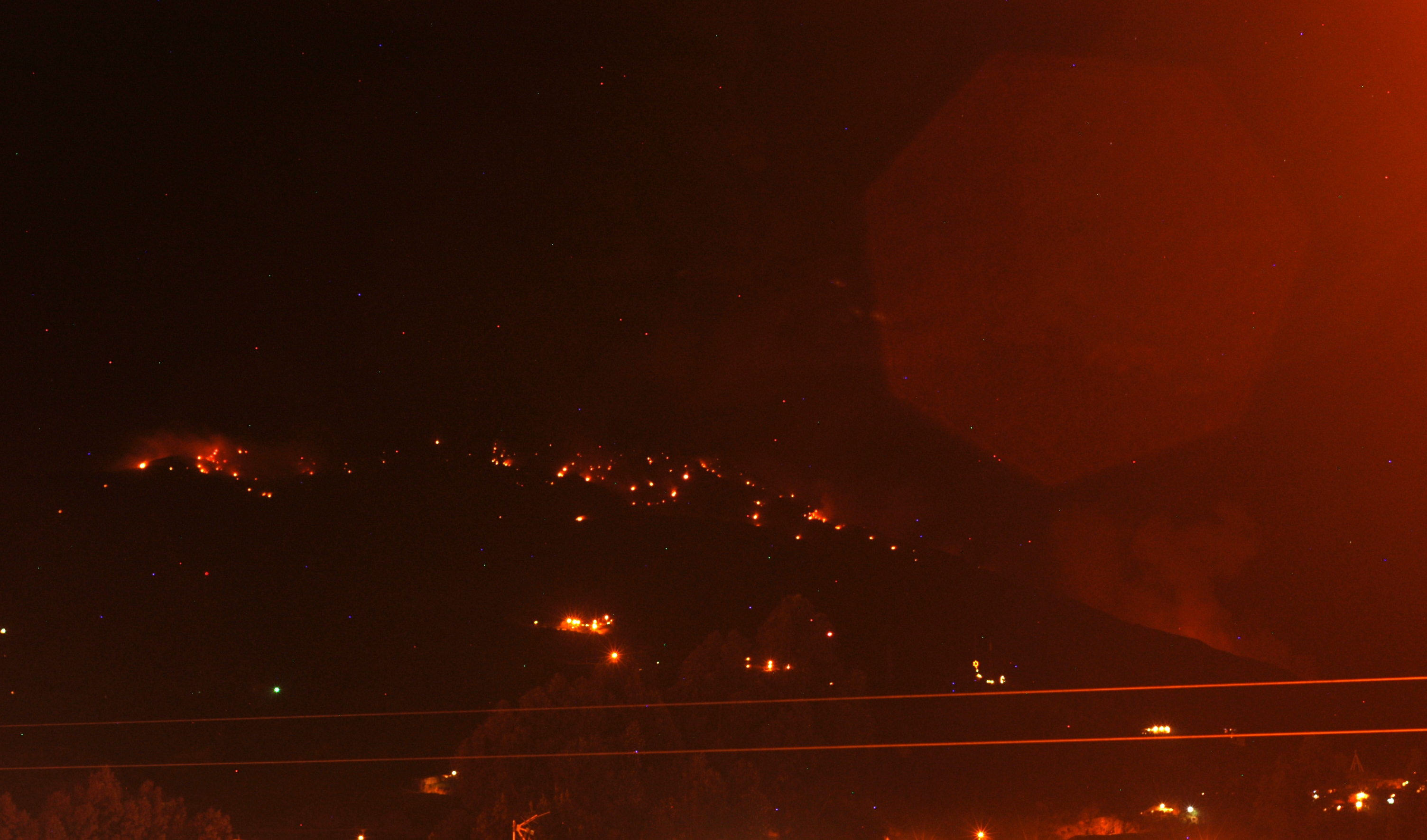 Tephra incandescence over Galeras Volcano, minutes after eruption of January 2, 2010.